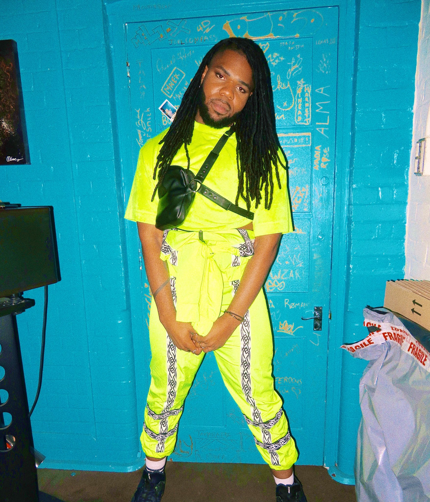 Image of MNEK